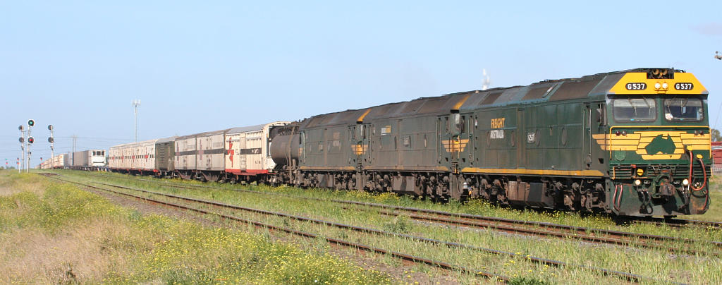 Melbourne bound "Specialised Container Transport" train hauled by "Freight Australia" locomotives G537 and two classmates - Geelong, Victoria, Australia. Note specially equipped fuel tankers behind the locomotives - it allowed the services to operate between Melbourne and Perth without the need for frequent refuelling stops.